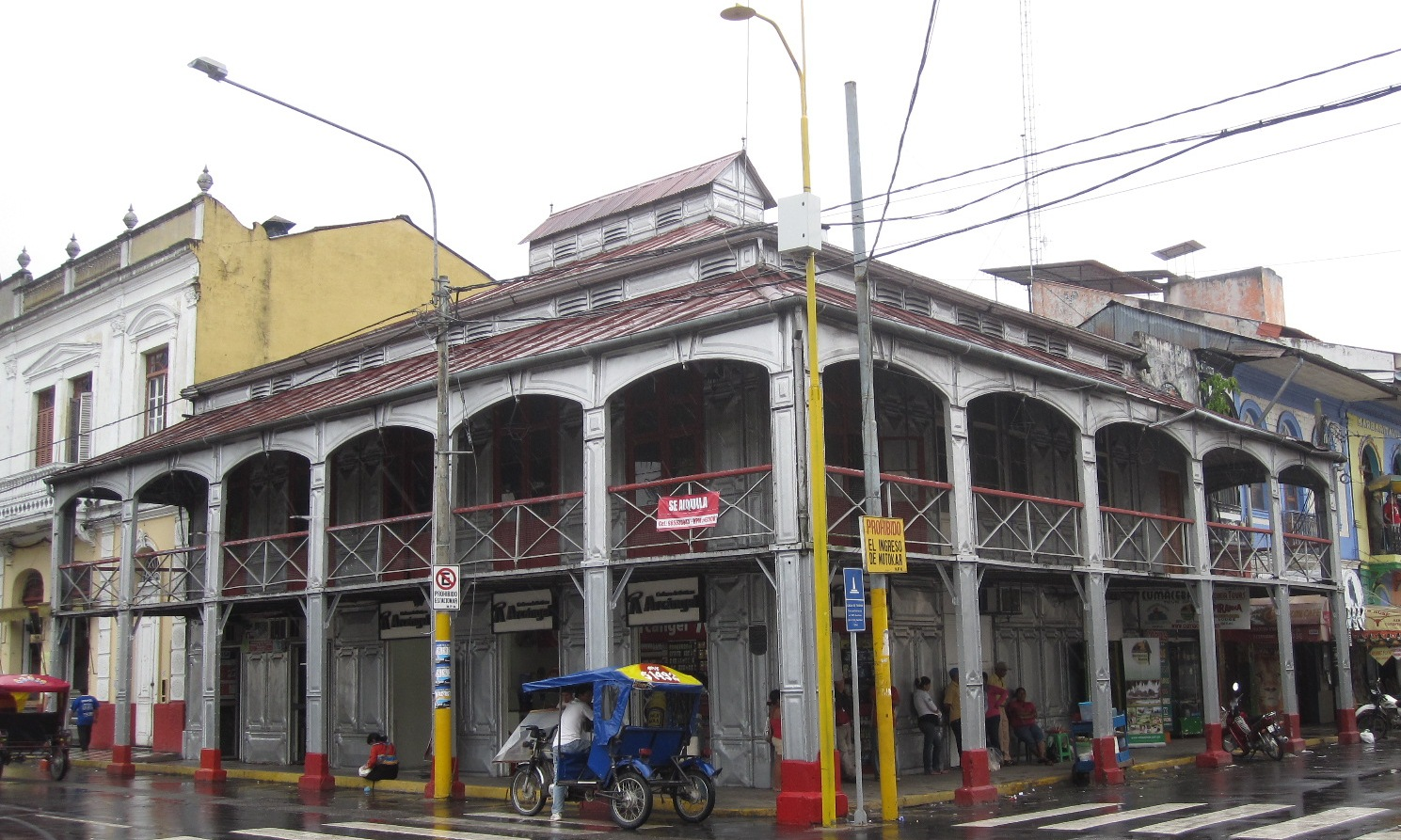 Casa de Fierro. designed by Belgian architect Joseph Danly, and constructed in 1890. Photo taken in Iquitos, Peru, 2011.